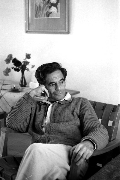 Architect Samuel Bickels, 1960s